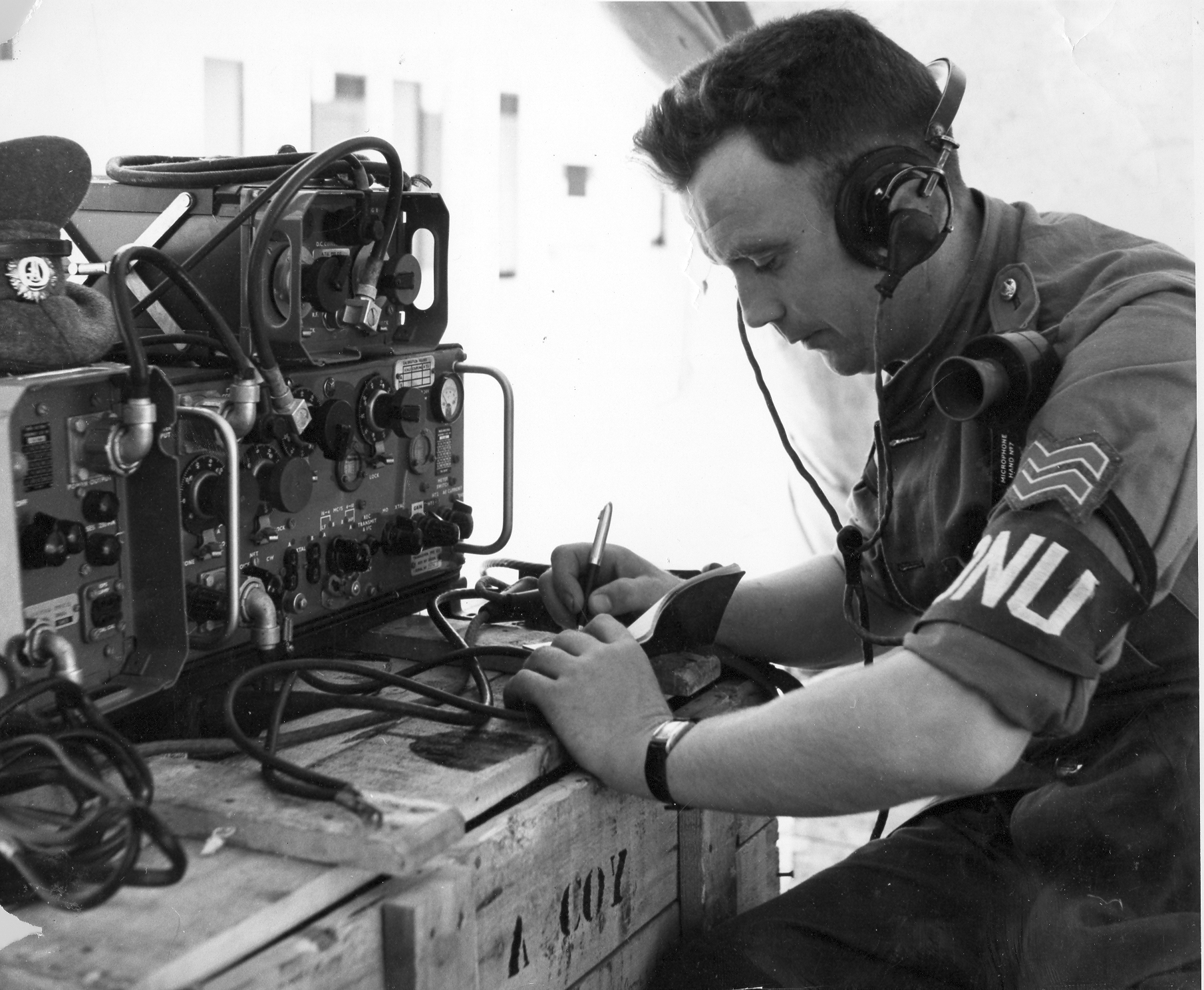 On duty in the Congo